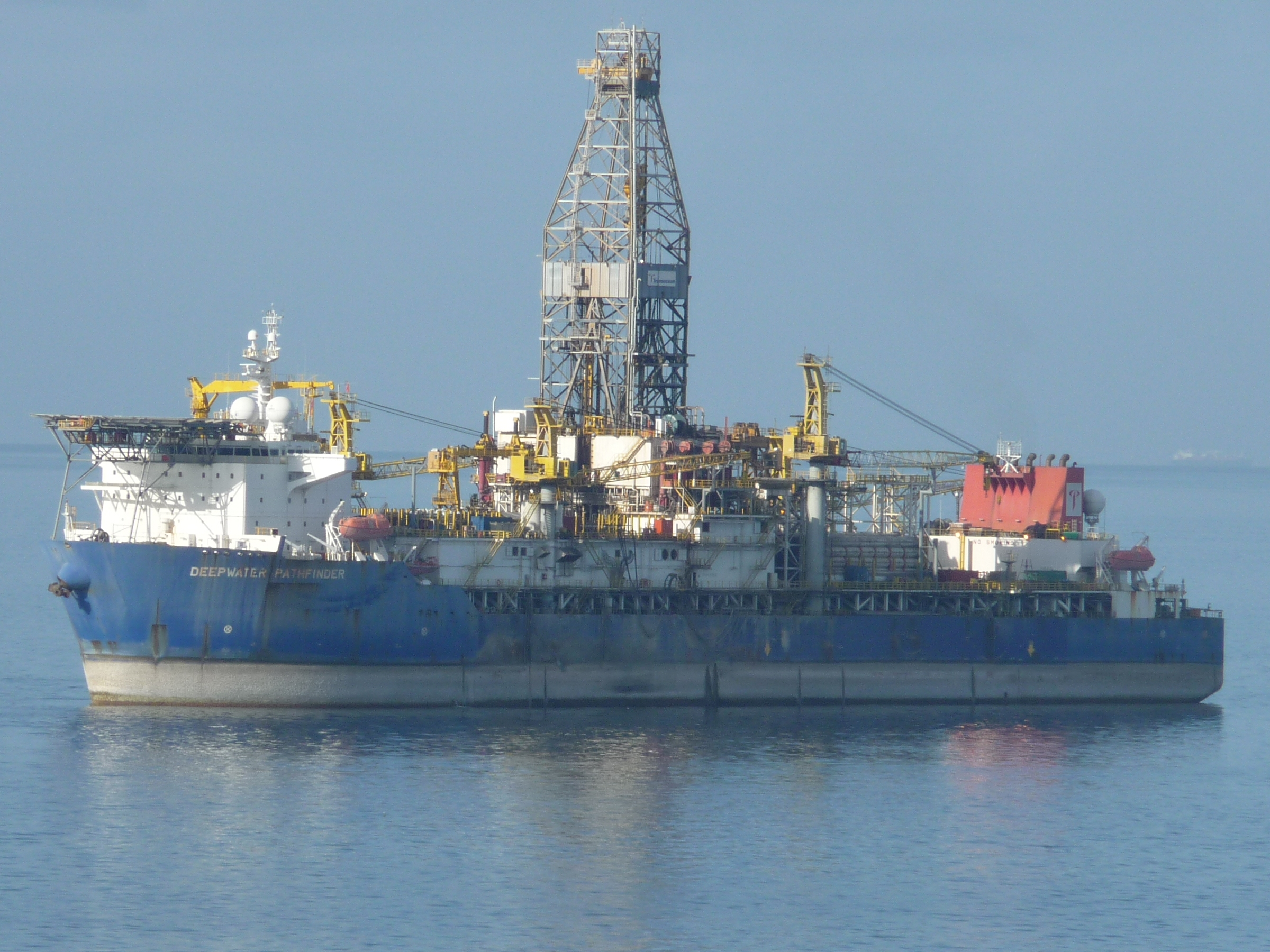 Drillship Deepwater Pathfinder off Trinidad